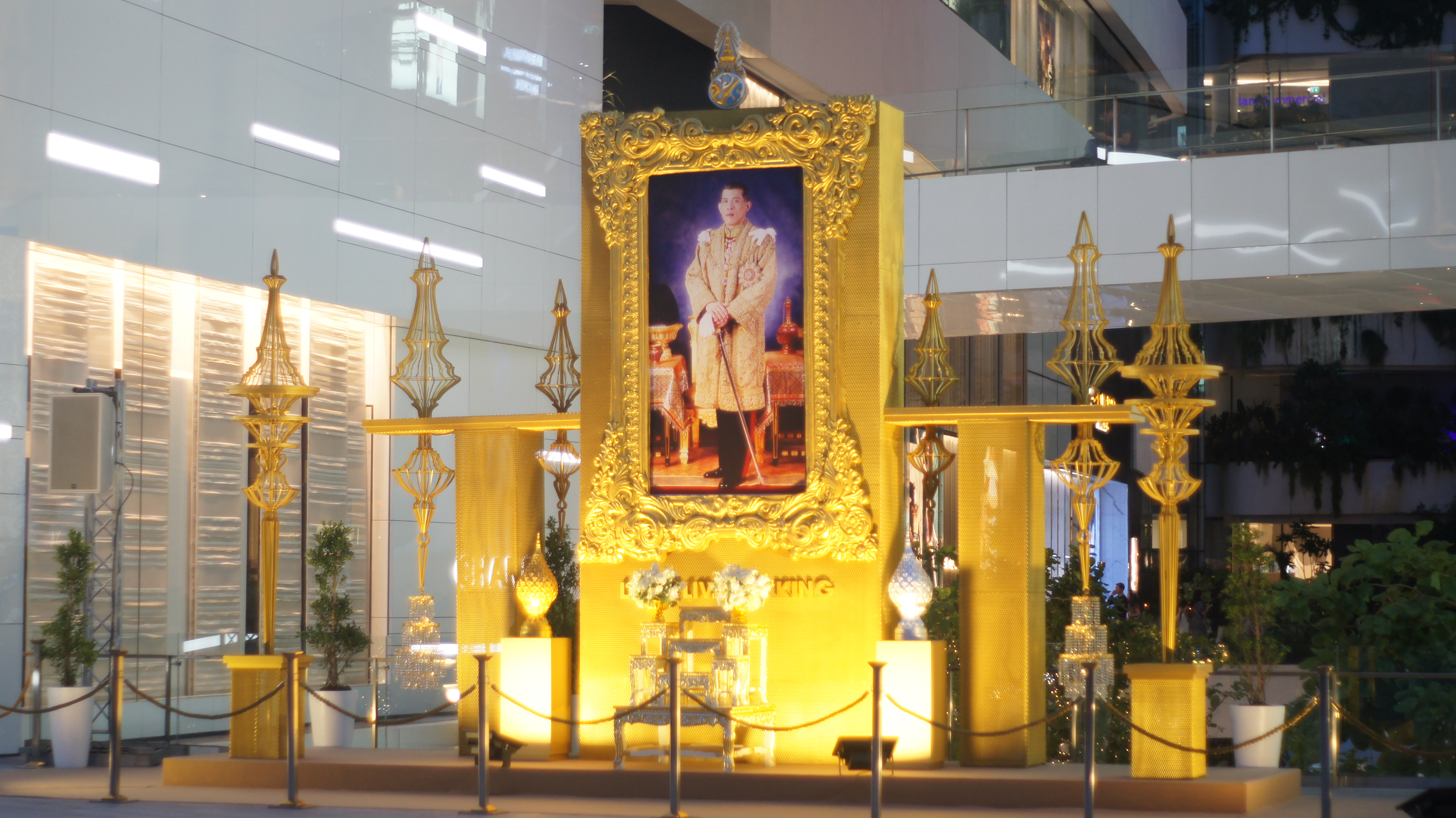 The portrait of King Vajiralongkorn in front of The emquatier in 2017